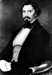 Portrait of Carlo Guasco (1813 – 1876)